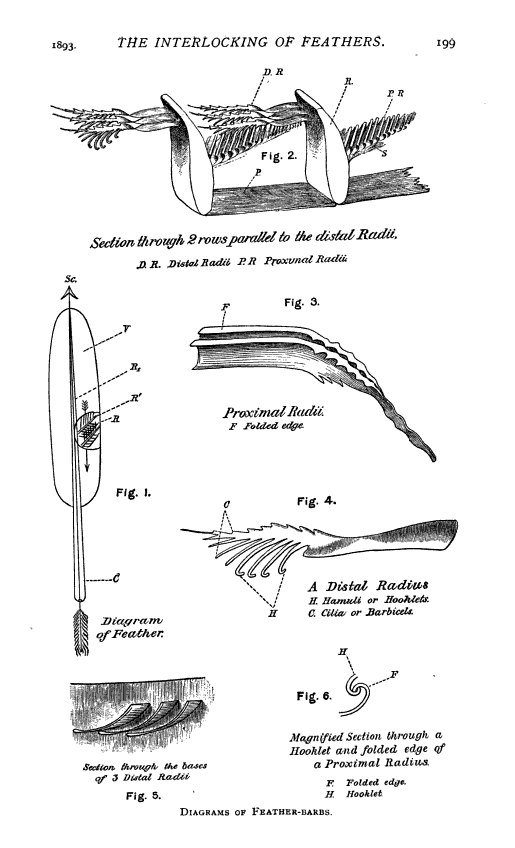 Explanatory diagrams of pennacous feather barb structures that allow for the interlocking of the barbs thereby giving the vane structure, strength, flexibility and stability.